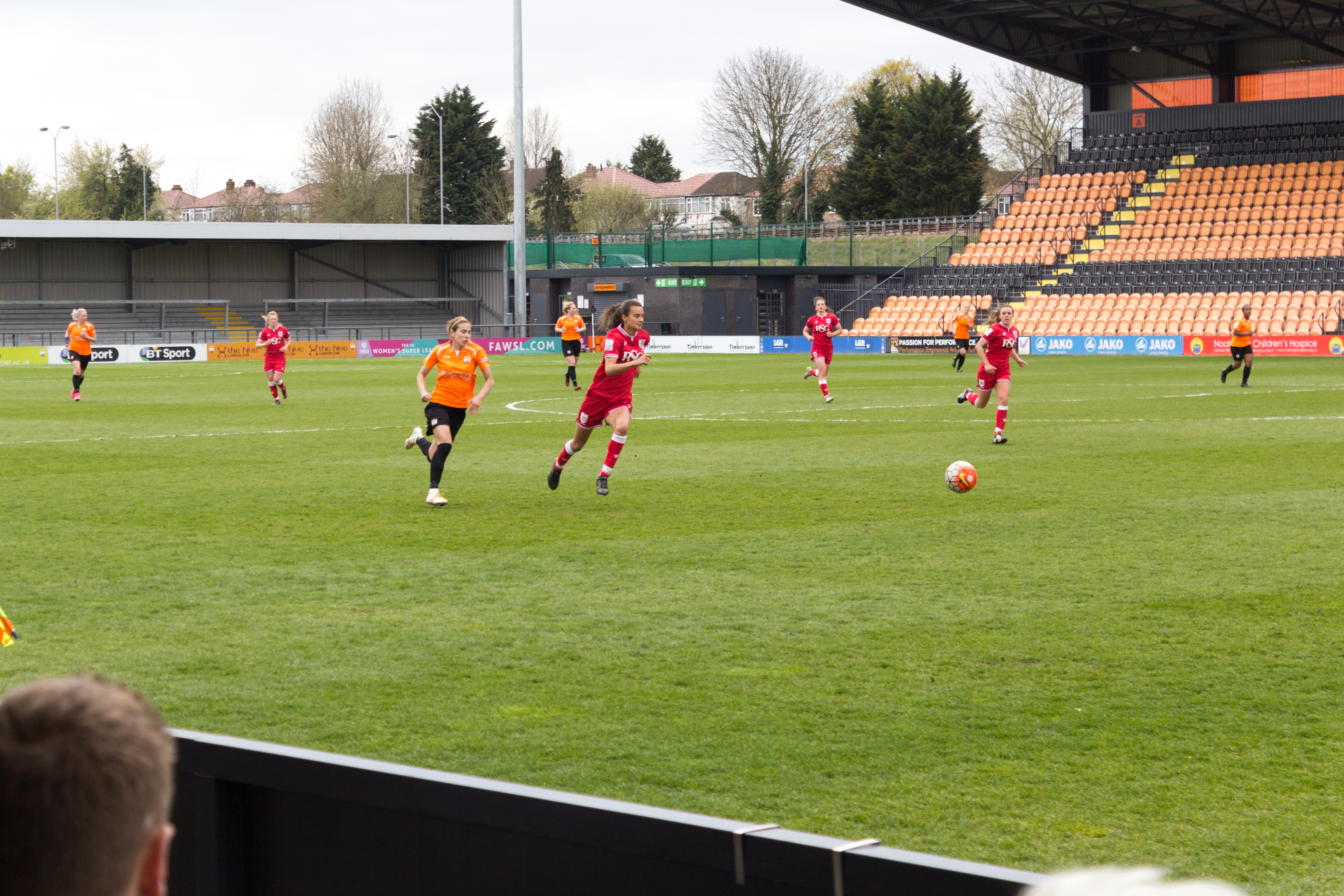 London Bees v Bristol City WFC, 24 April 2016